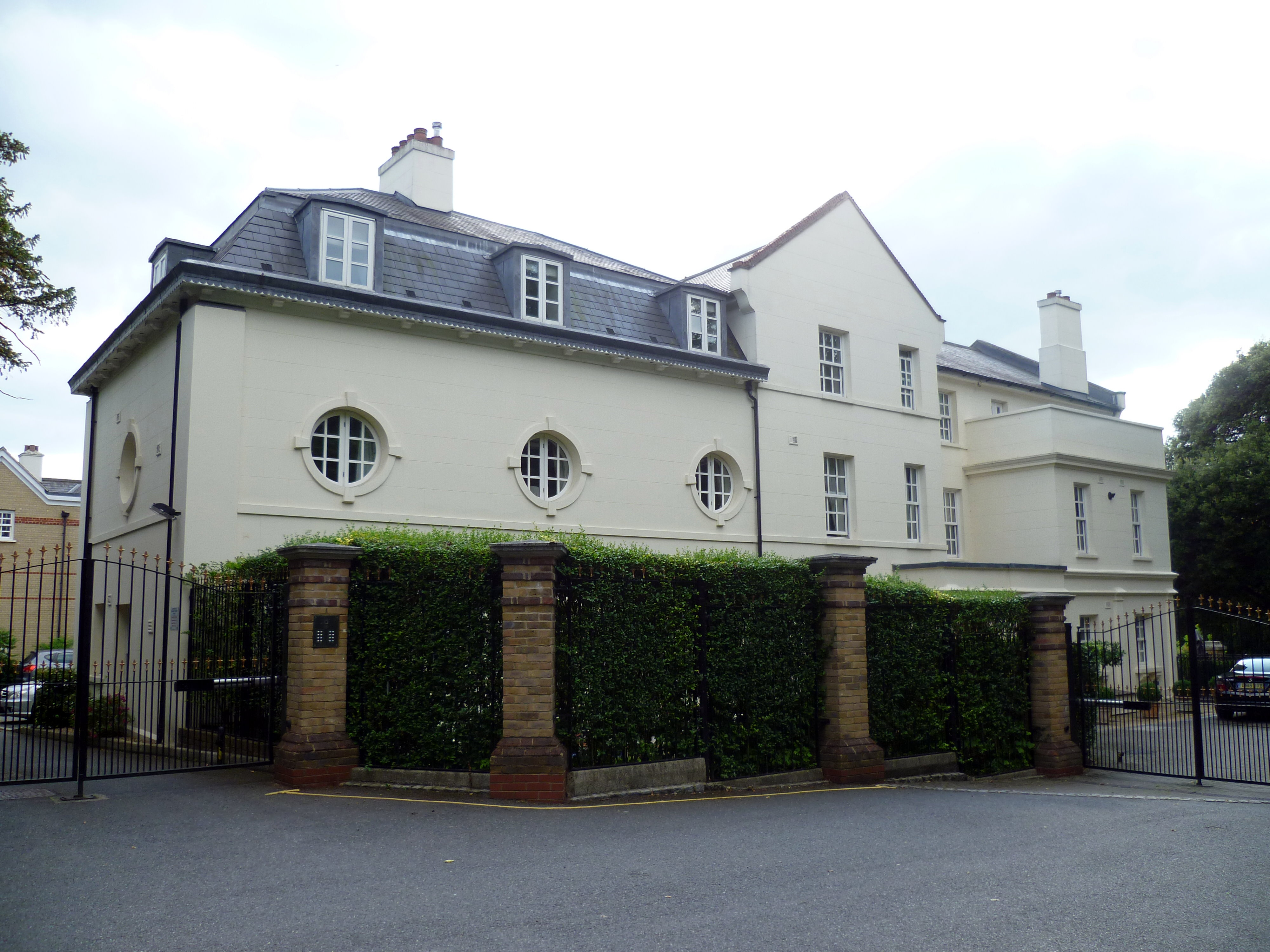 Ludgrove Hall 8 August 2015